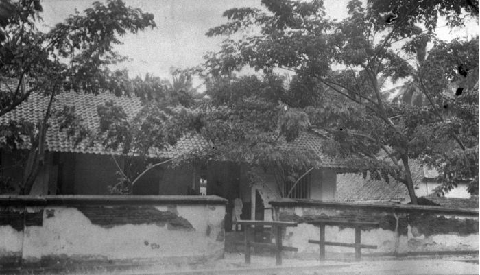 The entrance of the hospital in Indramayu